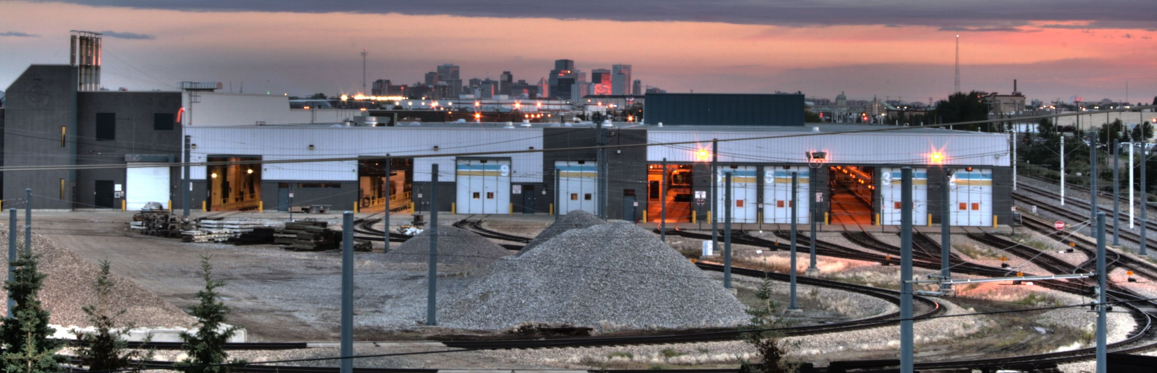 Light Rail Transit system yards, northeast Edmonton, Alberta, Canada.